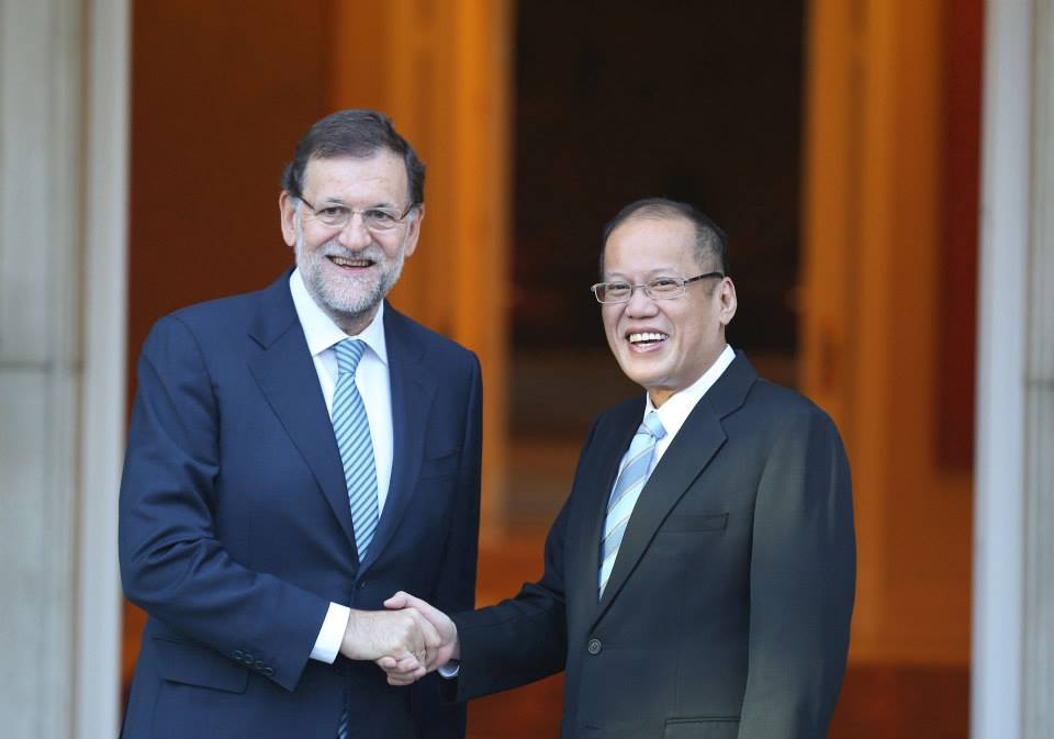 President Benigno S. Aquino III with His Excellency Mariano Rajoy, Prime Minister of Spain, during the bilateral meeting at the Palacio de la Moncloa in Av Puerta de Hierro, Madrid, Spain. — September 15, 2014